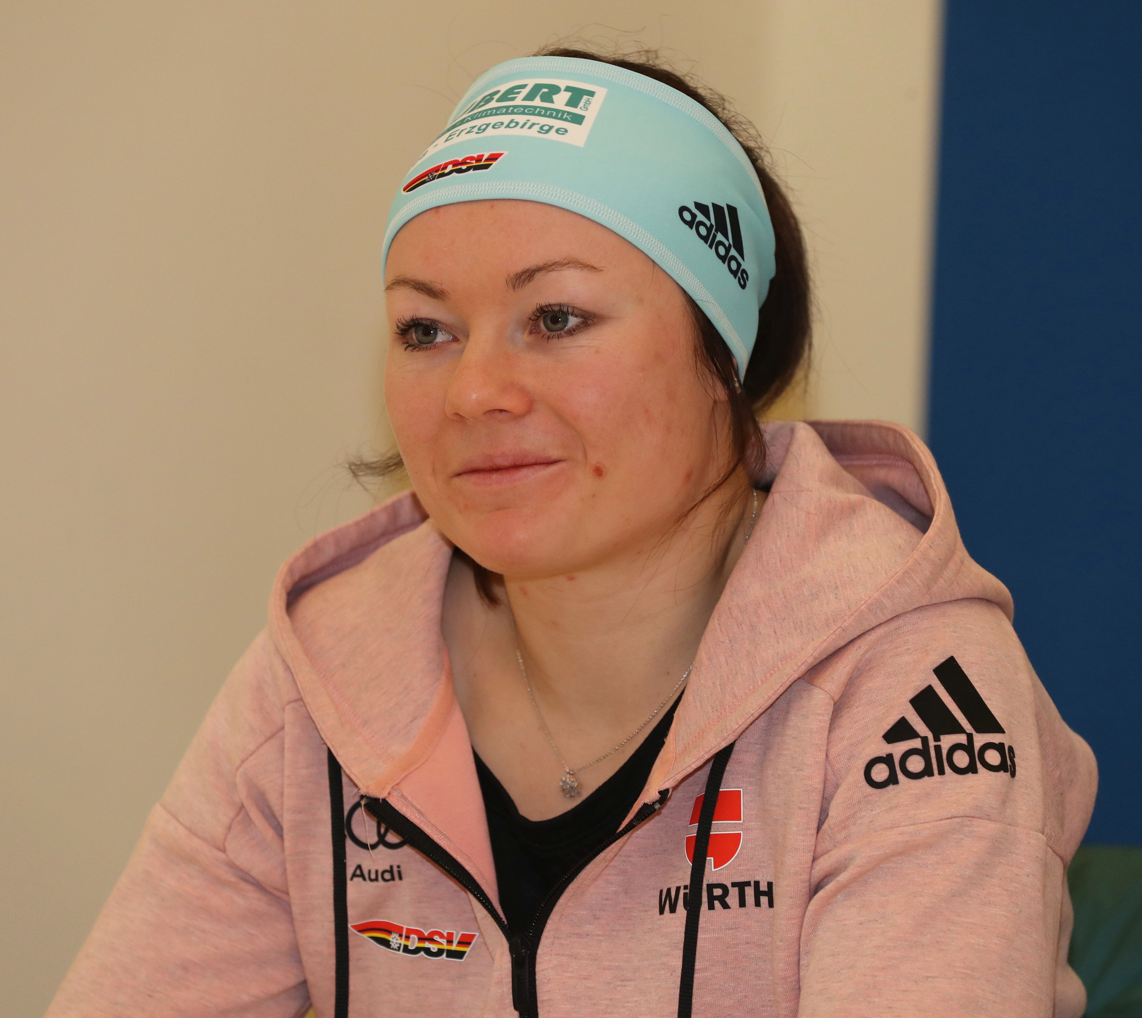 Press conference at the FIS Cross-Country World Cup World Cup Dresden 2019